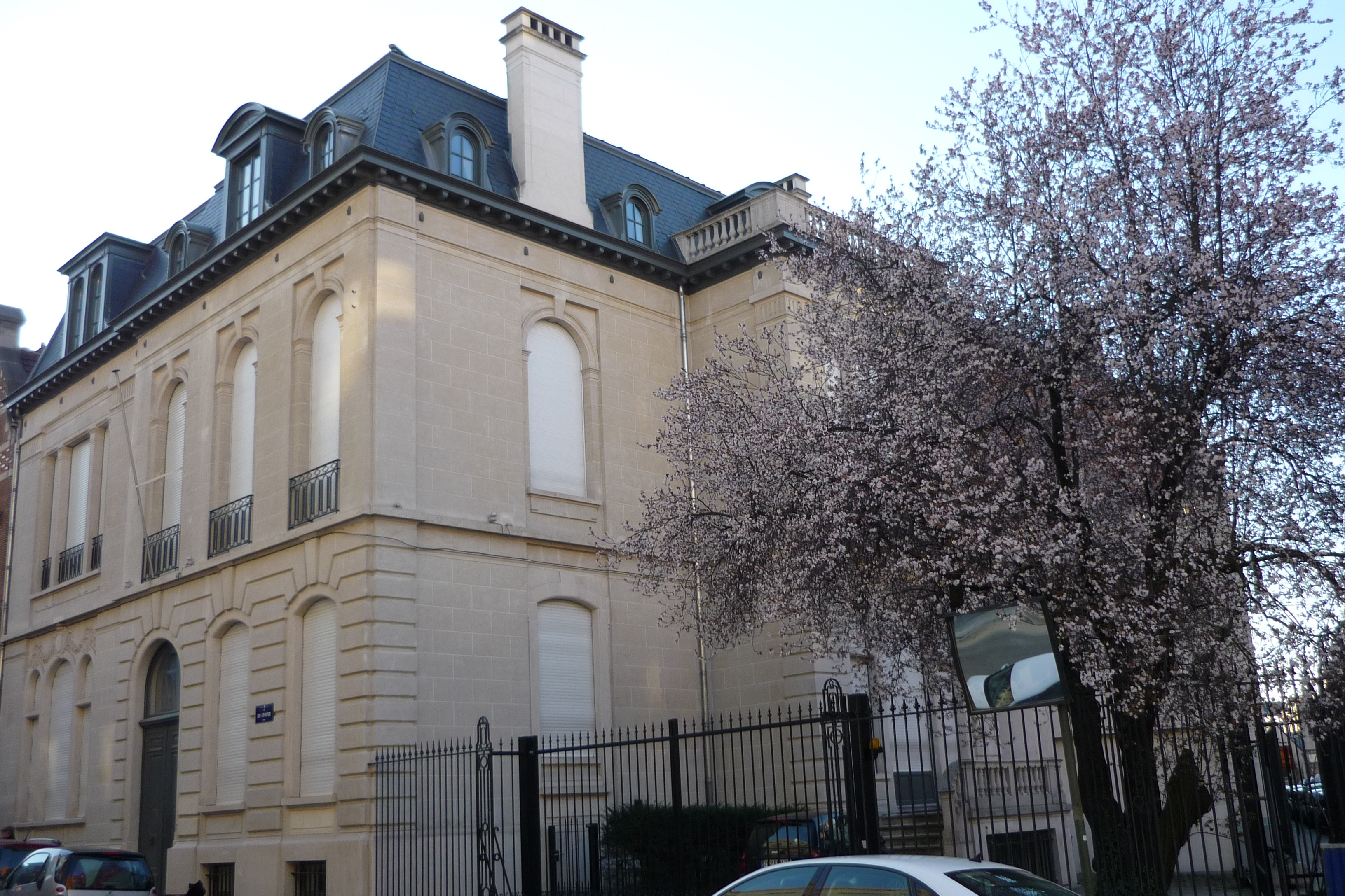 Brussels, Family Van Dievoet Mansion, De Crayerstraat, 9 and Jacques Jordaensstraat 33